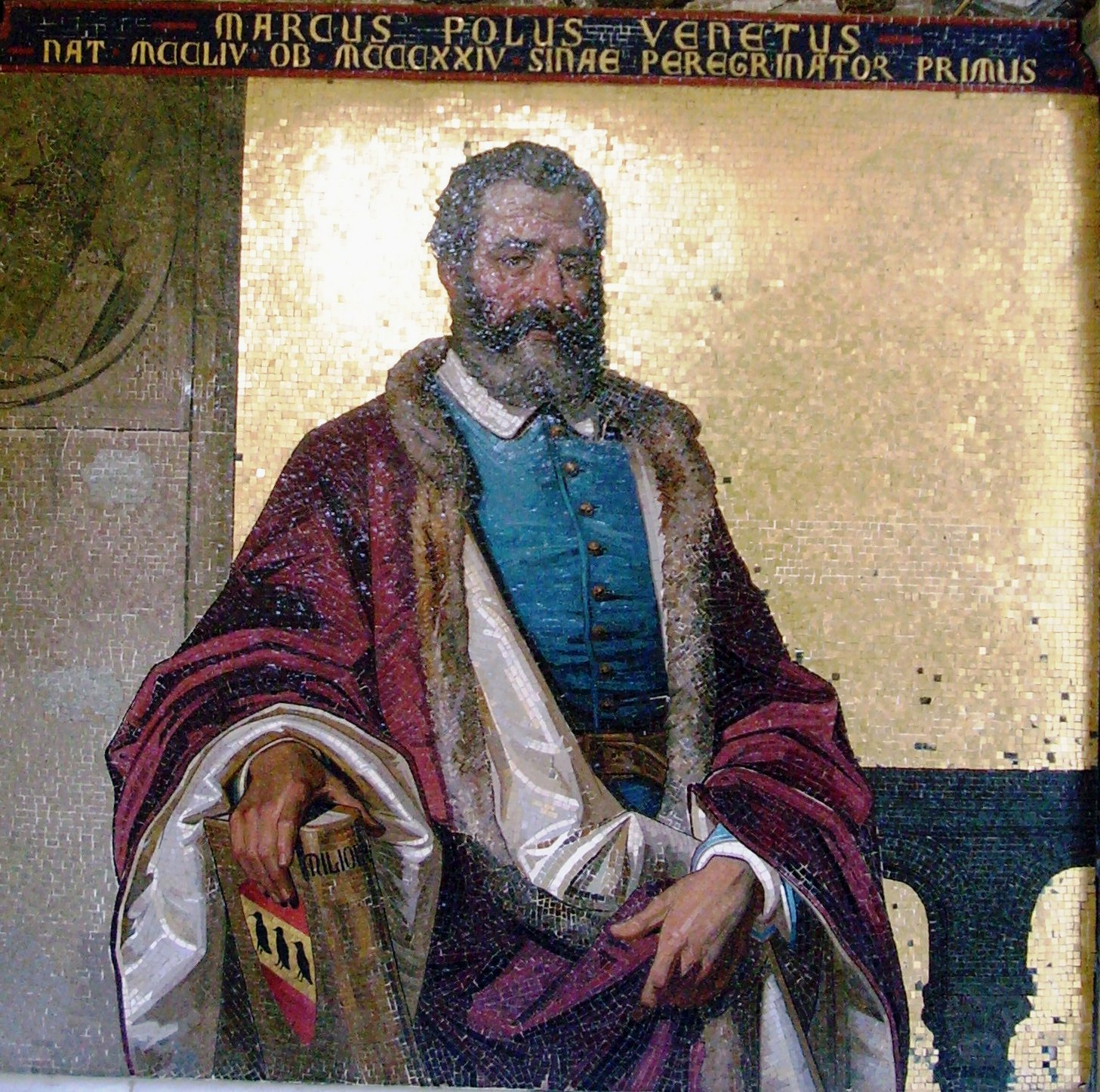 Mosaic representing Marco Polo at Villa Hanbury, Ventimiglia, Italy